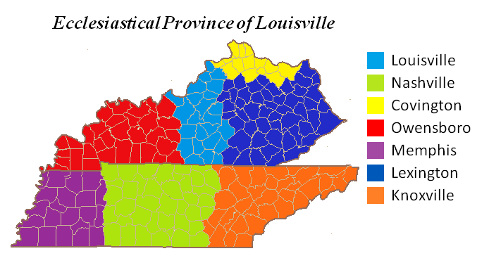 The Ecclesiastical Province of Louisville in the Catholic Church encompasses the diocese's in Kentucky and Tennessee, USA.